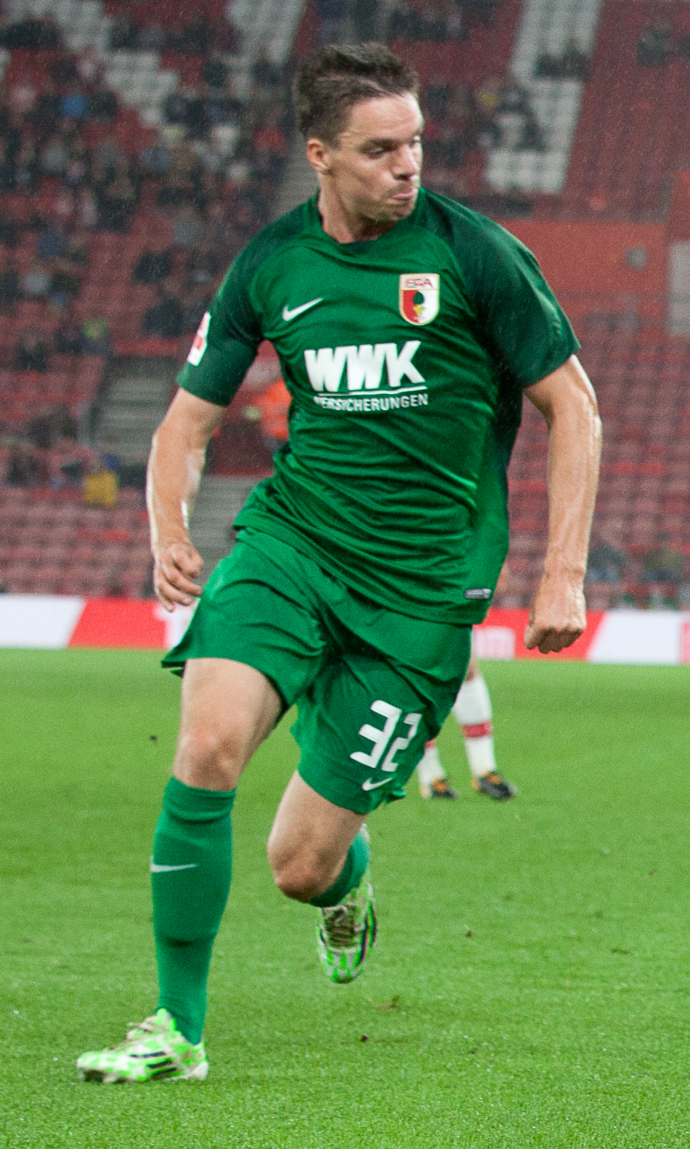 Pre-season friendly Wednesday 2 August 2017 Image by Steve Hogg